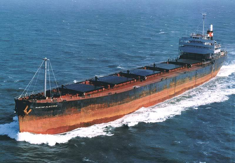 The Marine Electric, a 605-foot cargo ship, as seen underway before its capsizing and sinking on Feb. 12, 1983. The converted WWII-era ship foundered 30 miles off the coast of Virginia and capsized, throwing most of its 34 crew into 37-degree water, where 31 of them drowned or succumbed to hypothermia.